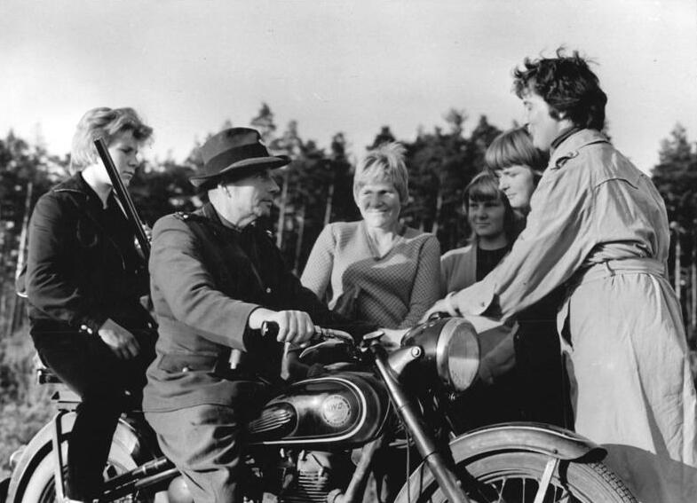 Neustrelitz, forest workers brigade. Horst Sturm - Erich-Weiß-Verlag, 12.9.1959. Neustrelitz girls set records. In the first ten days of September, they outperformed all previous successes of six members of the Dorn women's brigade at the Neustrelitz state forestry company and fulfilled the daily requirement with an average of 184 percent. At the same time, the women achieved the goal of their annual plan and met the requirements of a "brigade of socialist work". For new plantings, the brigade ought to plant 16,000 annual pine trees a day, but the girls planted 25,000. Since the beginning of the year, they have been the competition winner of all forest renewal brigades. Their lead over the next brigade in fulfilling the plan is 20 percent. (For details see ADN report.) [UBz: (Unterbildzeile? Urbildzeile?)] Caption: District forester Kabella is a good friend and helper of the brigade.